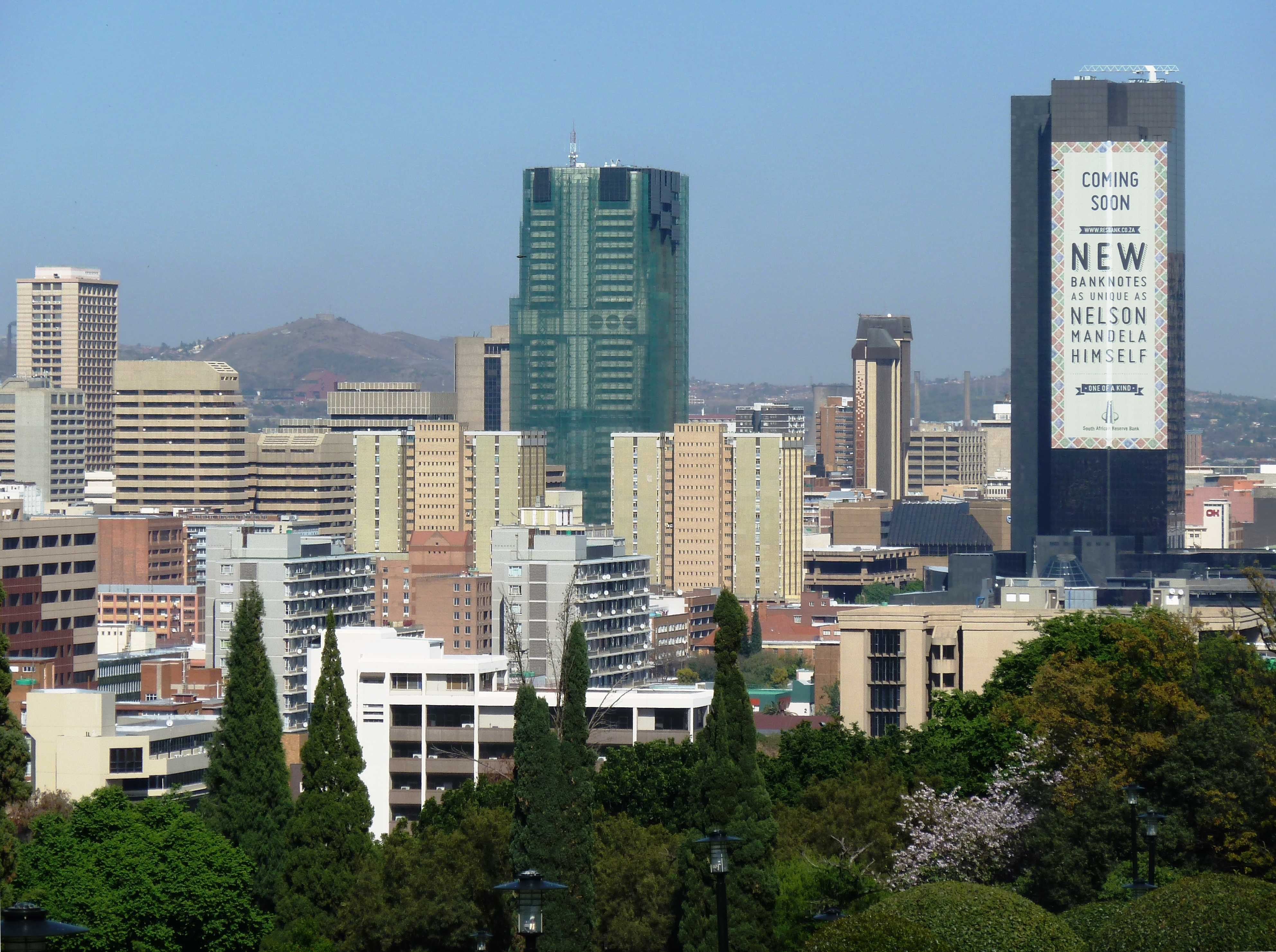 Pretoria CBD as seen from the Union buildings. The billboard on the Reserve Bank building advertises bank notes that honour Nelson Mandela.[1]